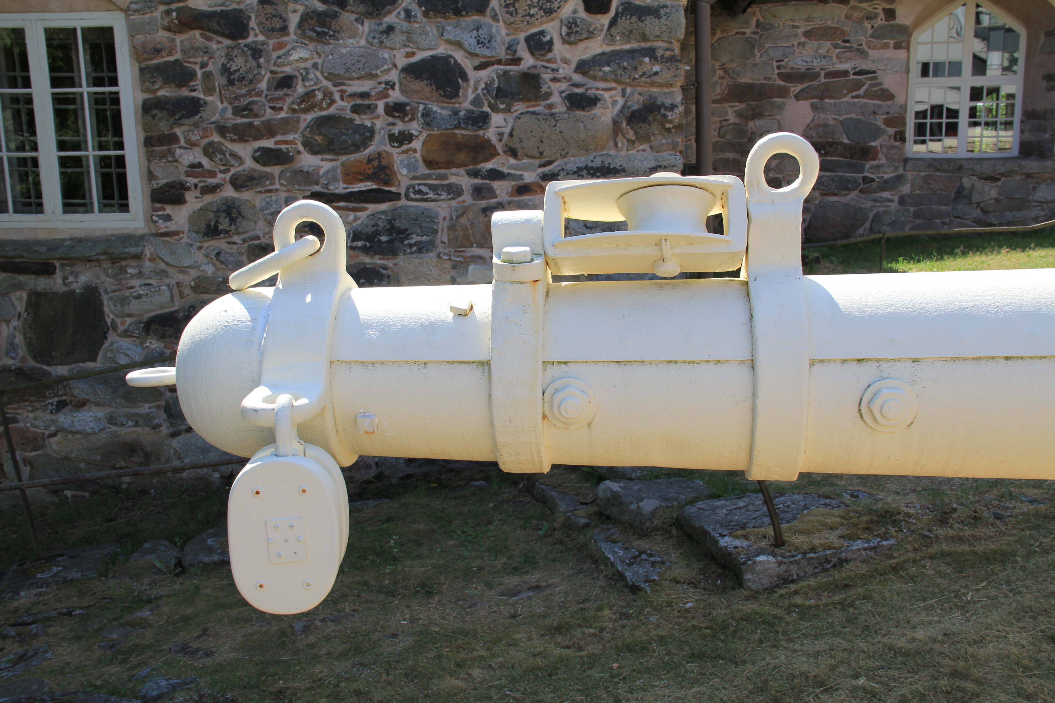 Upper topsail yard of german 4-masted barque ship Peking, Uusikaupunki, Finland. - A monument from the Age of Sail. - Detail